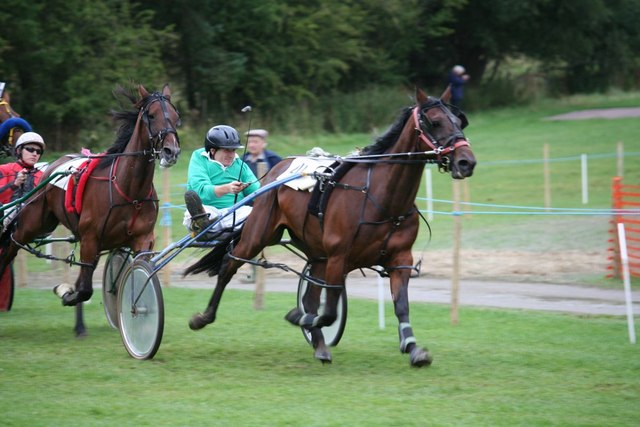 First lap One of the rigs leading the way on the first lap.